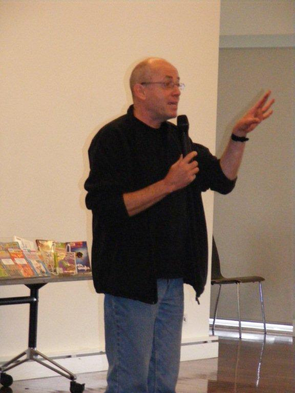 Morris Gleitzman speaks about his books at an author talk at Ingleburn Library